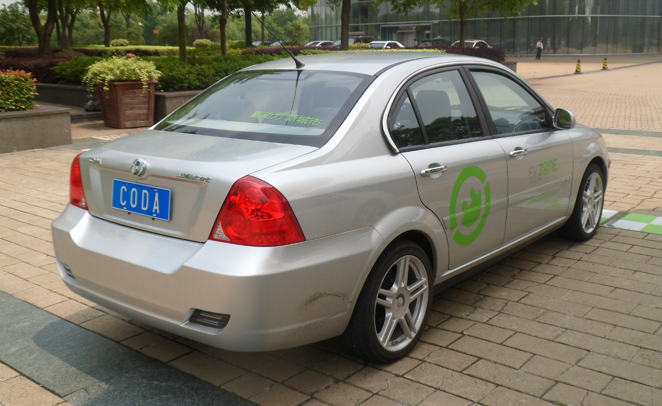 Coda EV photographed in Anting, Shanghai municipality, China.